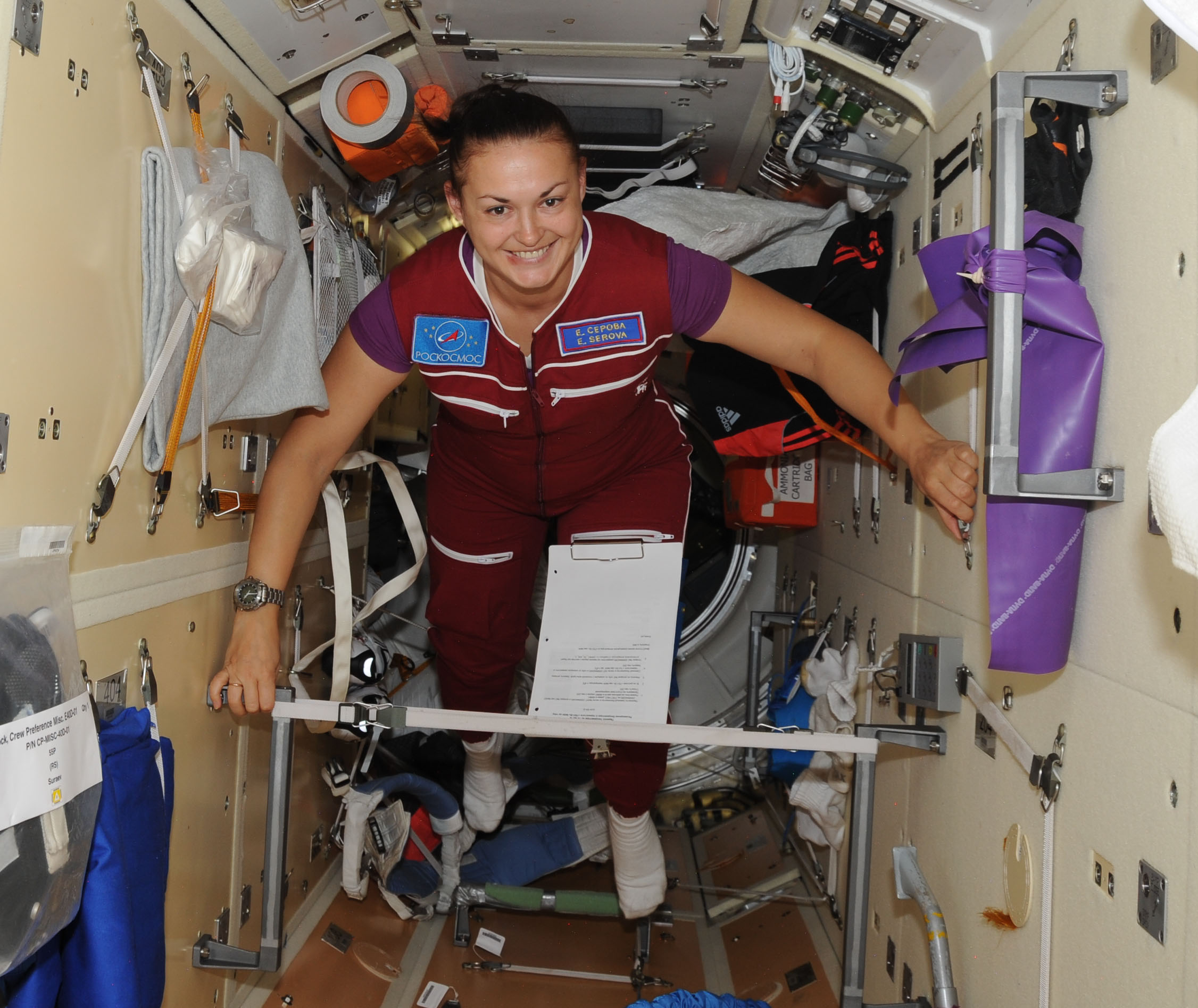 Russian cosmonaut Elena Serova, Expedition 41 flight engineer, floats through the Rassvet Mini-Research Module 1 of the International Space Station.